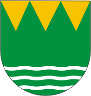 Coat of arms of Püssi linn, Estonia